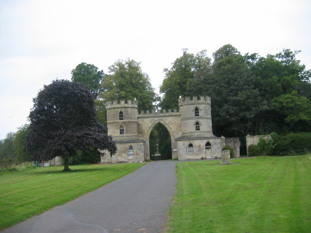 Duns Castle entry, Duns, Scottish Borders